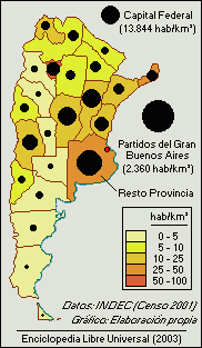 Distribution of the argentine population by province